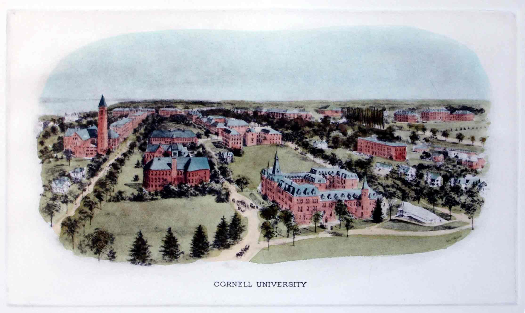 Richard Rummell's iconic landscape watercolor view of Cornell University, circa 1910. Courtesy of Arader Galleries. Image printed from the original copper plates by Arader Galleries. Arader Galleries is the owner & purveyor of the Richard Rummell College View copper plate engravings, and has made them available to alumni for roughly two decades. Please direct any questions or inquires to